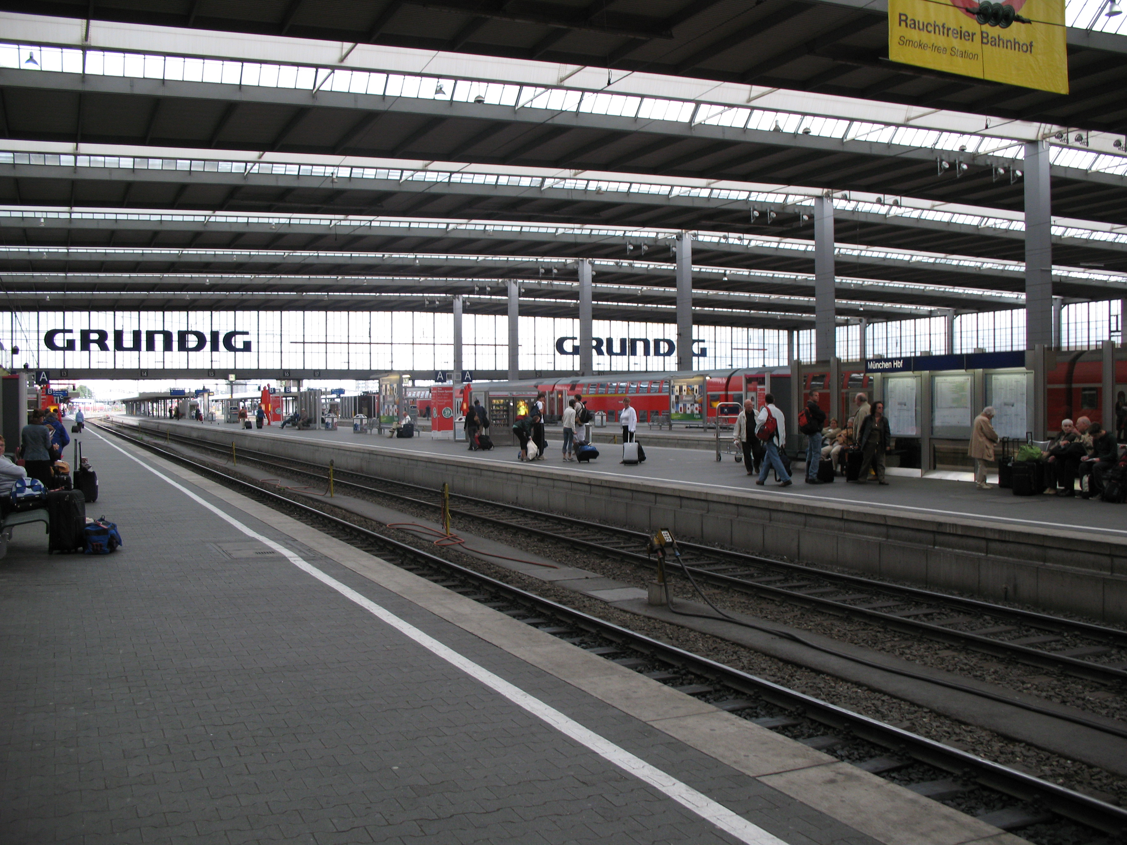 Main Train Station, Munich, Germany